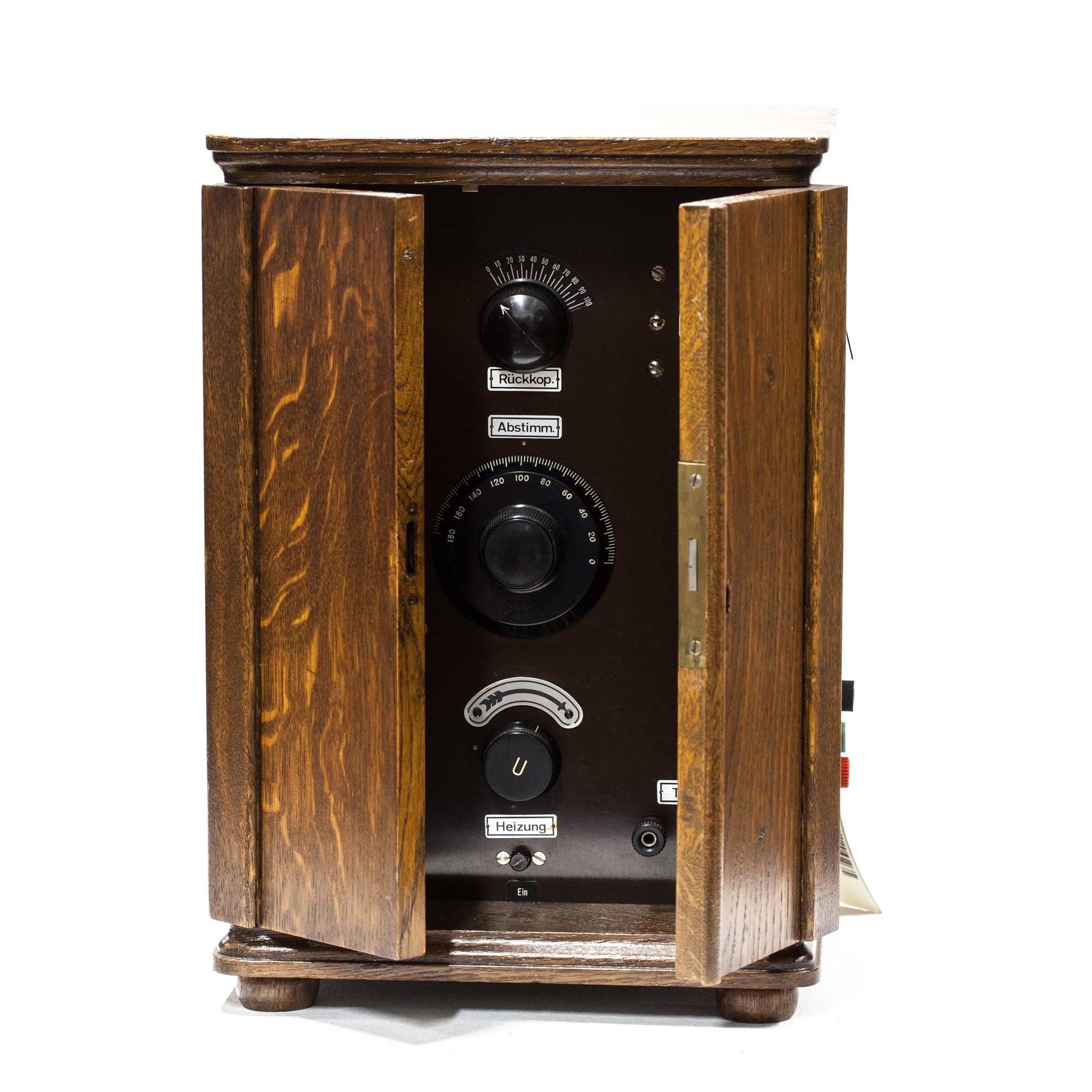 Radio receiver in wooden case, 1924. Museum für Kommunikation, Frankfurt, Germany. Photo by Maximilian Schönherr with help from Lioba Nägele.